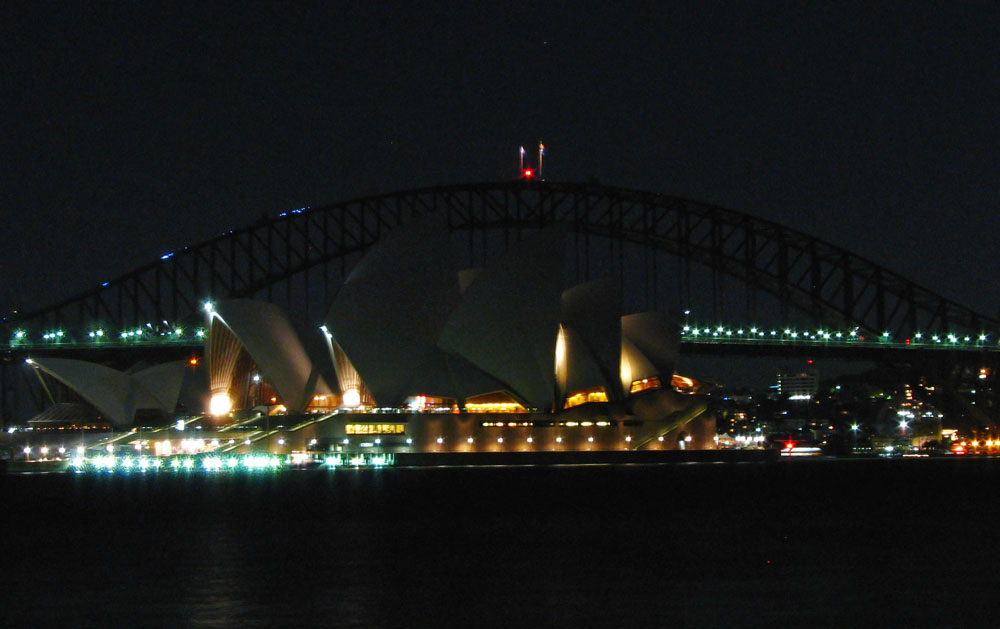 This is a photo of Sydney Harbour Bridge and Sydney Opera House during Earth hour